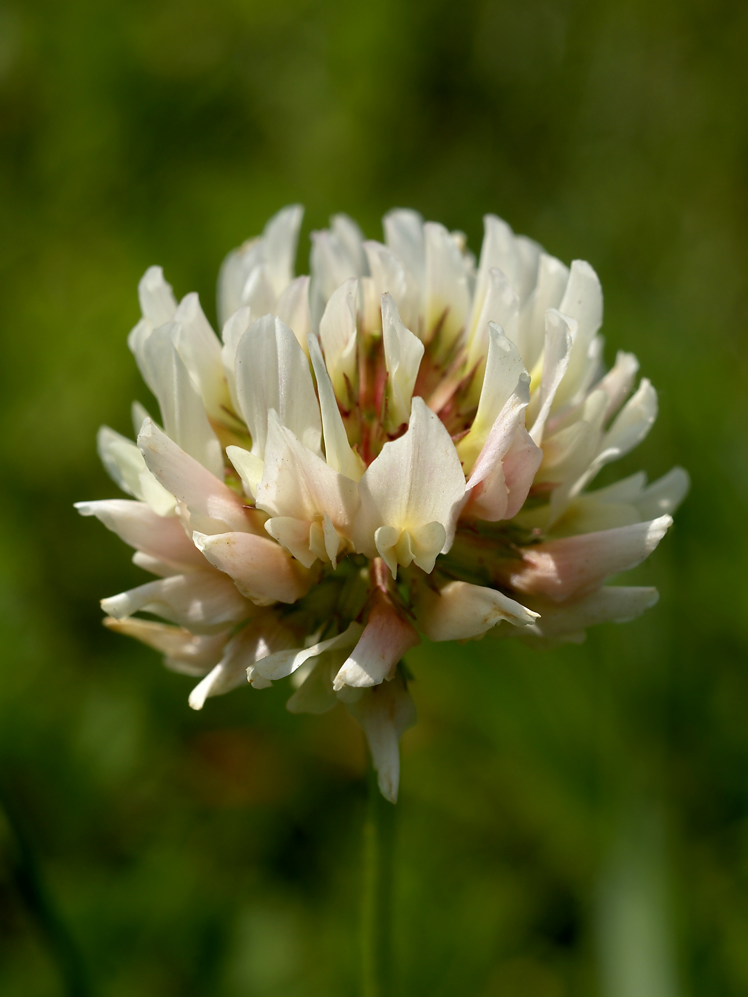 White clover flowers behind fish auction buildings at Oostende, Belgium.